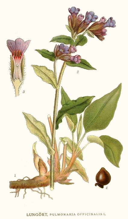 Original Description Lungört, Pulmonaria officinalis L.